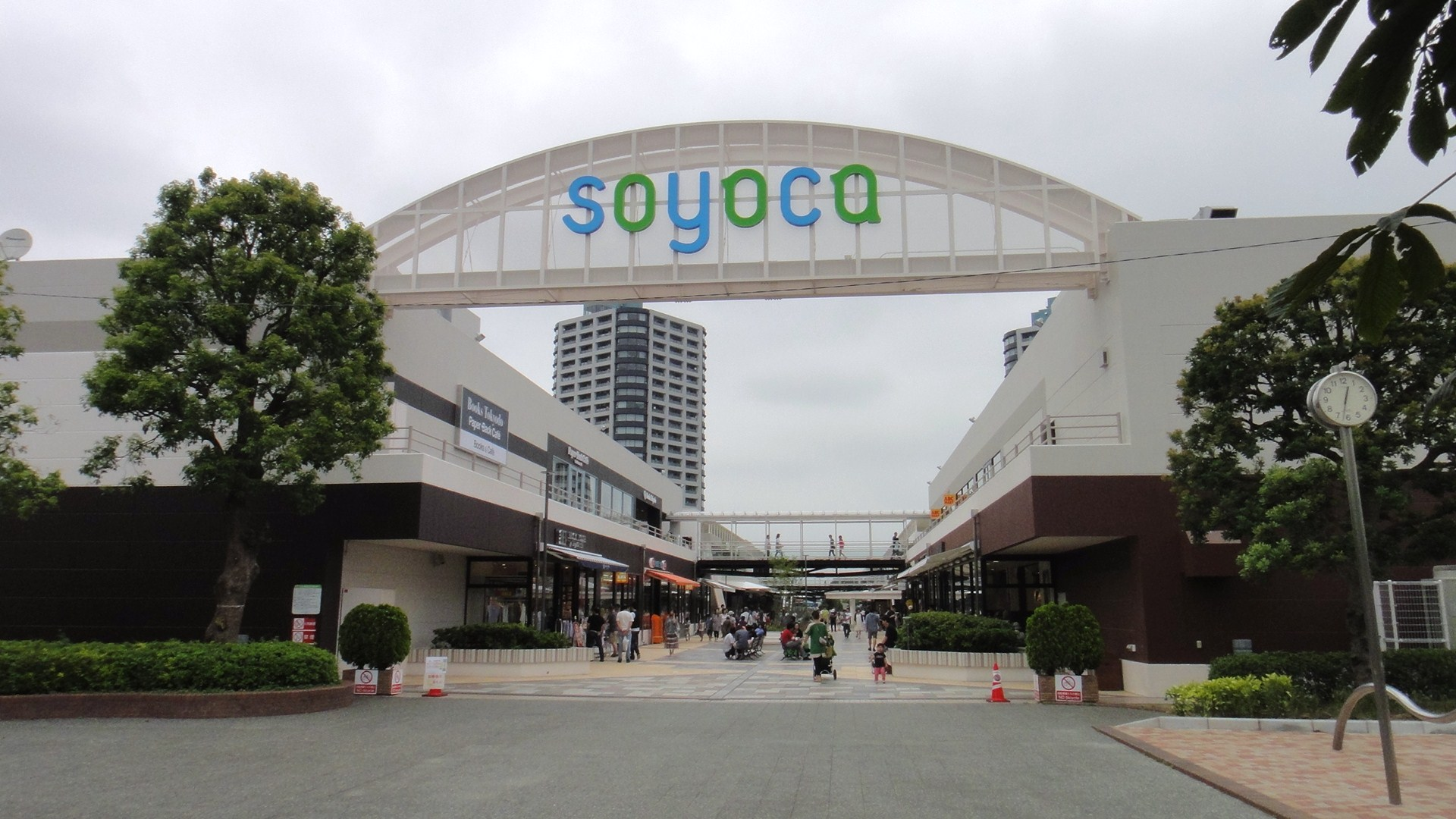 Soyoca Fujimi Shopping Centre in Fujimi, Saitama